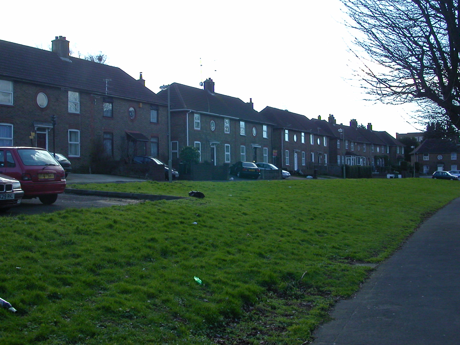 Houses on The Highway, parallel to the A27 Lewes Road, Moulsecoomb, Brighton. Photographed on 3rd March 2007.